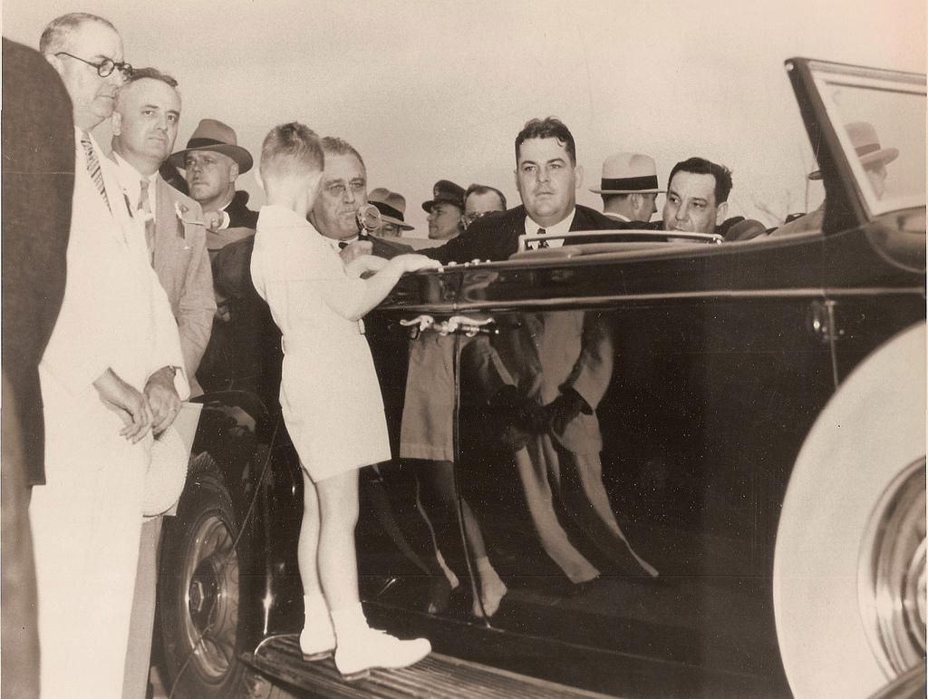 U.S. President Franklin D. Roosevelt at dedication of "Roosevelt Mall" in City Park, New Orleans in 1937. Roosevelt is seated in back of car holding a microphone. Seated to the right of Roosevelt are Louisiana Governor Richard Leche, and further right New Orleans Mayor Robert Maestri. The boy standing on the running board beside Roosevelt is Paul Alfred Montreui. His father Paul Montreuil, Superintendent of City Park, stands at left wearing eyeglasses.